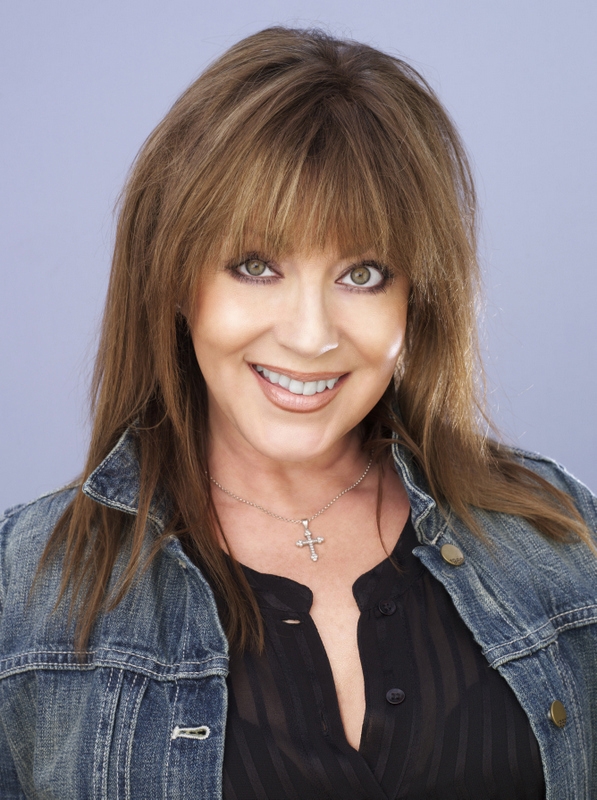 Profile Photograph